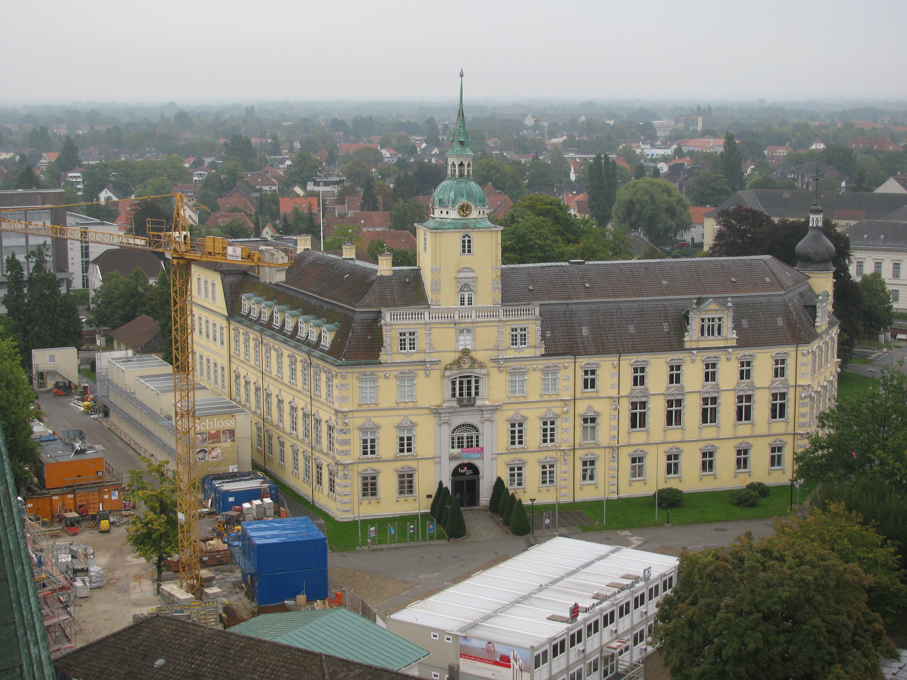 Castle of Oldenburg in Lower Saxony, Germany